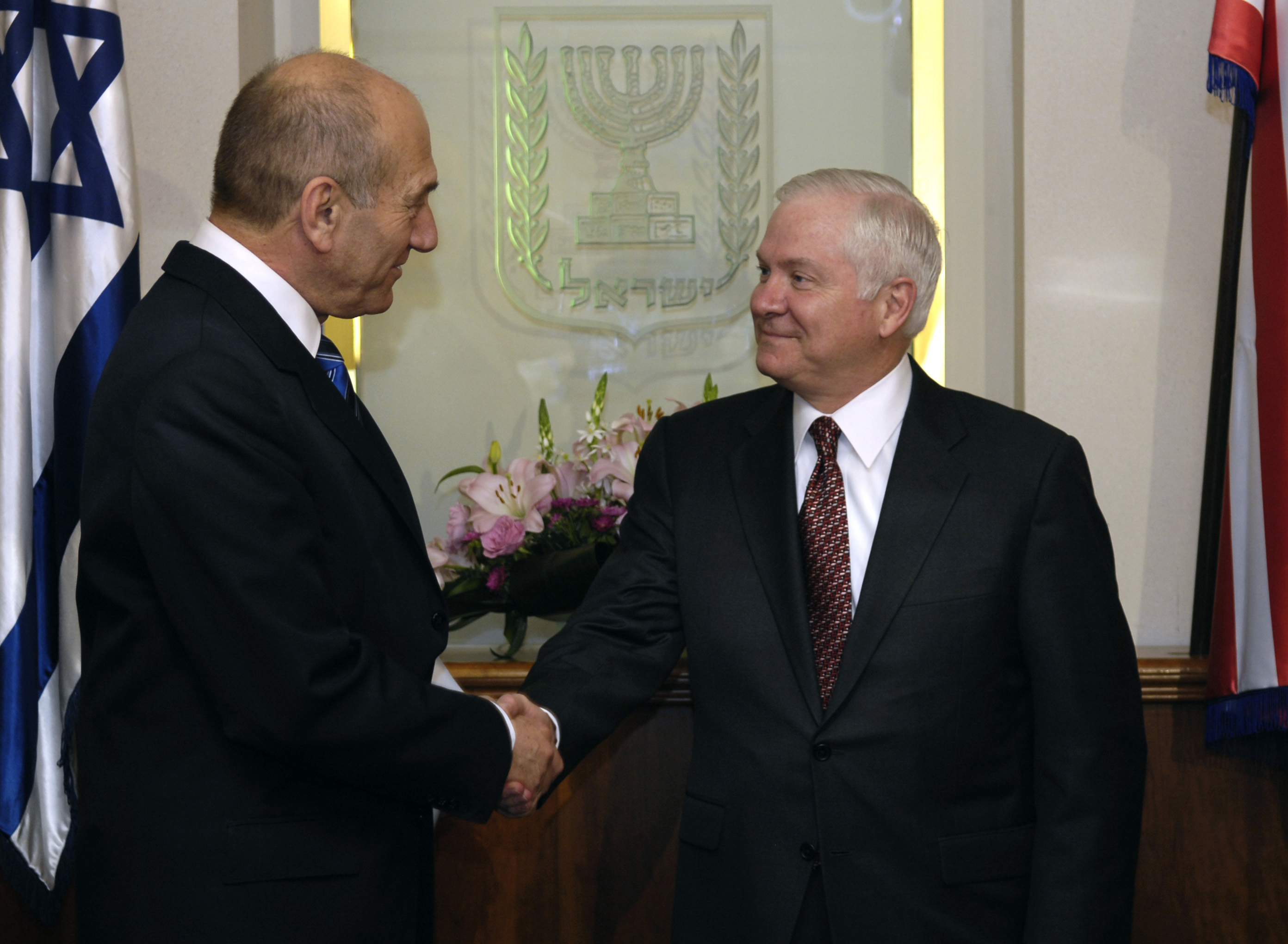 Secretary of Defense Robert M. Gates, right, meets with Israeli Prime Minister Ehud Olmert in Jerusalem, Israel.